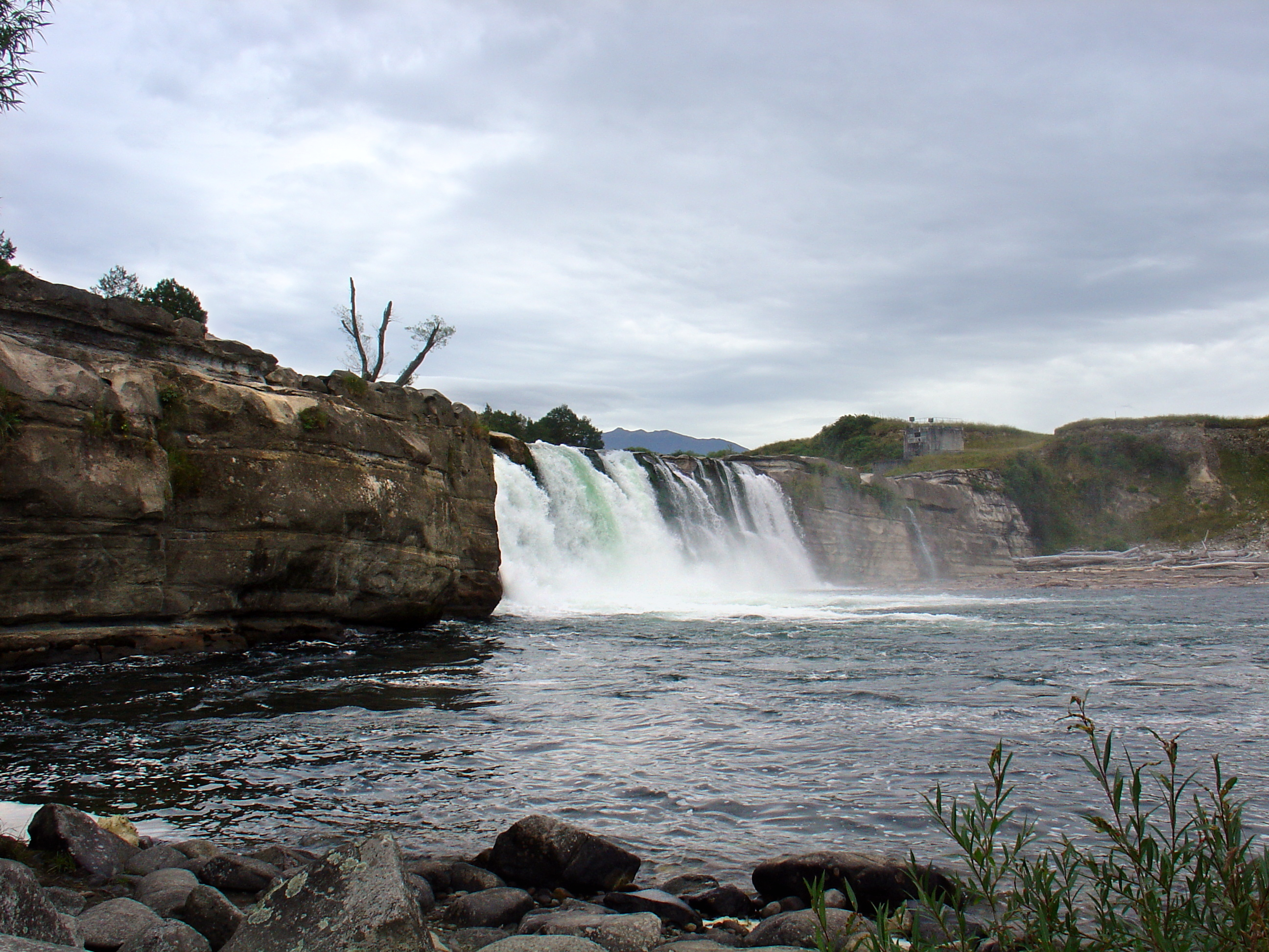 Maruia Falls - photograph taken by Tom Webb, Friday 12th December 2005